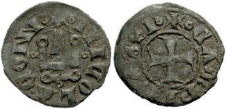 Italy Kindom of Naples. Nicola II di Monforte: "conte Cola", conte di Campobasso. 1459-1463 BI Denier Tournois (18mm, 1.18 gm). Campobasso mint. Châtel tournois flanked by annulets; third annulet below Small cross pattée. CNI XVIII pg. 233, 1 var. (flanking annulets only); MEC 14, 940 var. (rosettes).